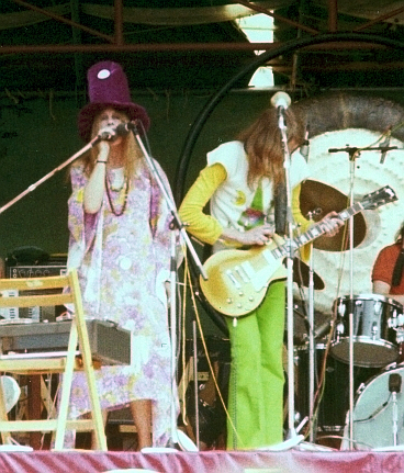 Gilli Smyth & Daevid Allen of Gong, playing Hyde Park